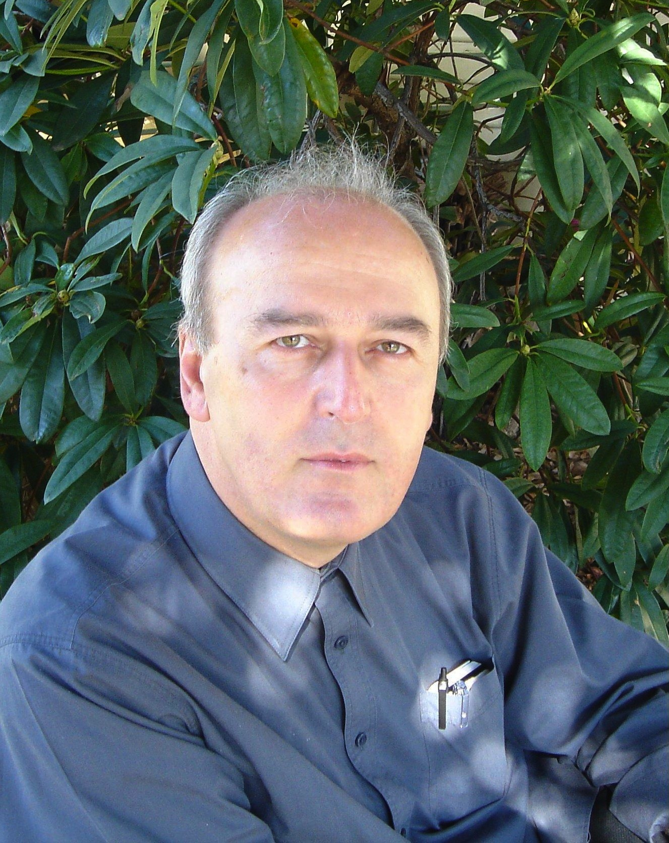 Photo was taken in Joseh Jordania backyard in 2011